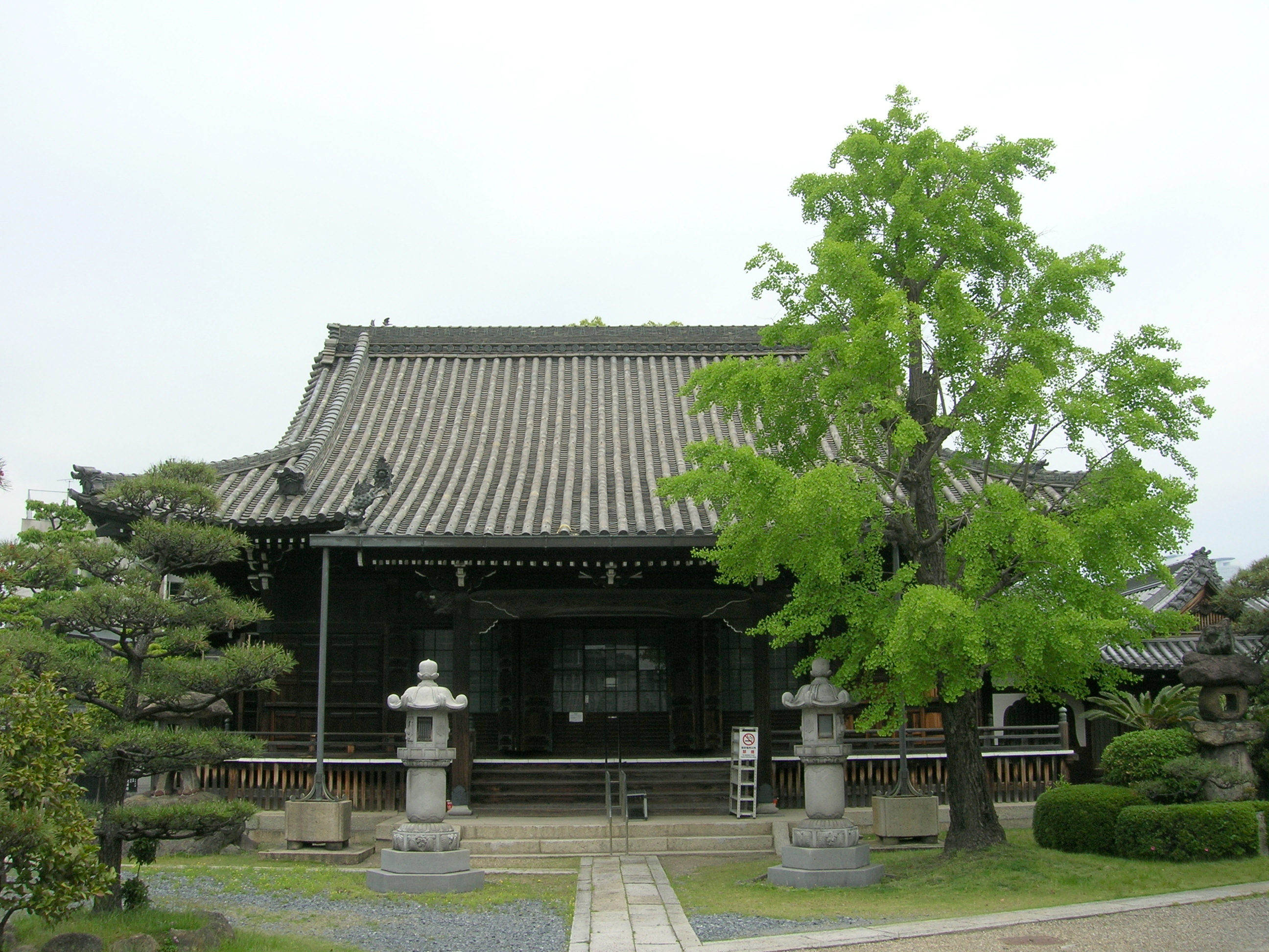 Zengyō-ji temple, Hondō (Main hall). Loc: Nakagawa-ku, Nagoya city, Aichi Prefecture, Japan. 善行寺・本堂 撮影場所 愛知県名古屋市中川区